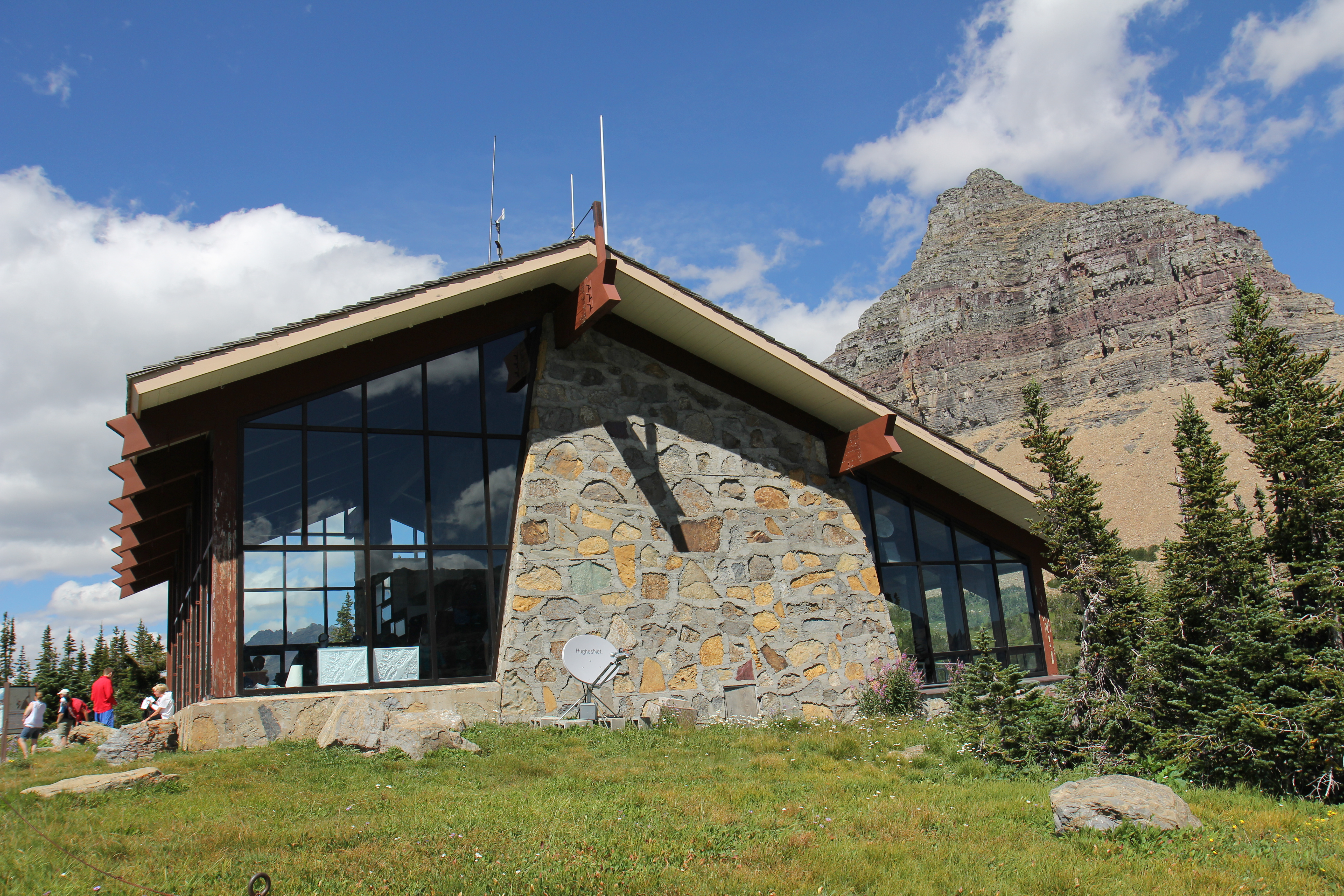 The upper level of the Logan Pass Visitor Center taken from the rear of the building.